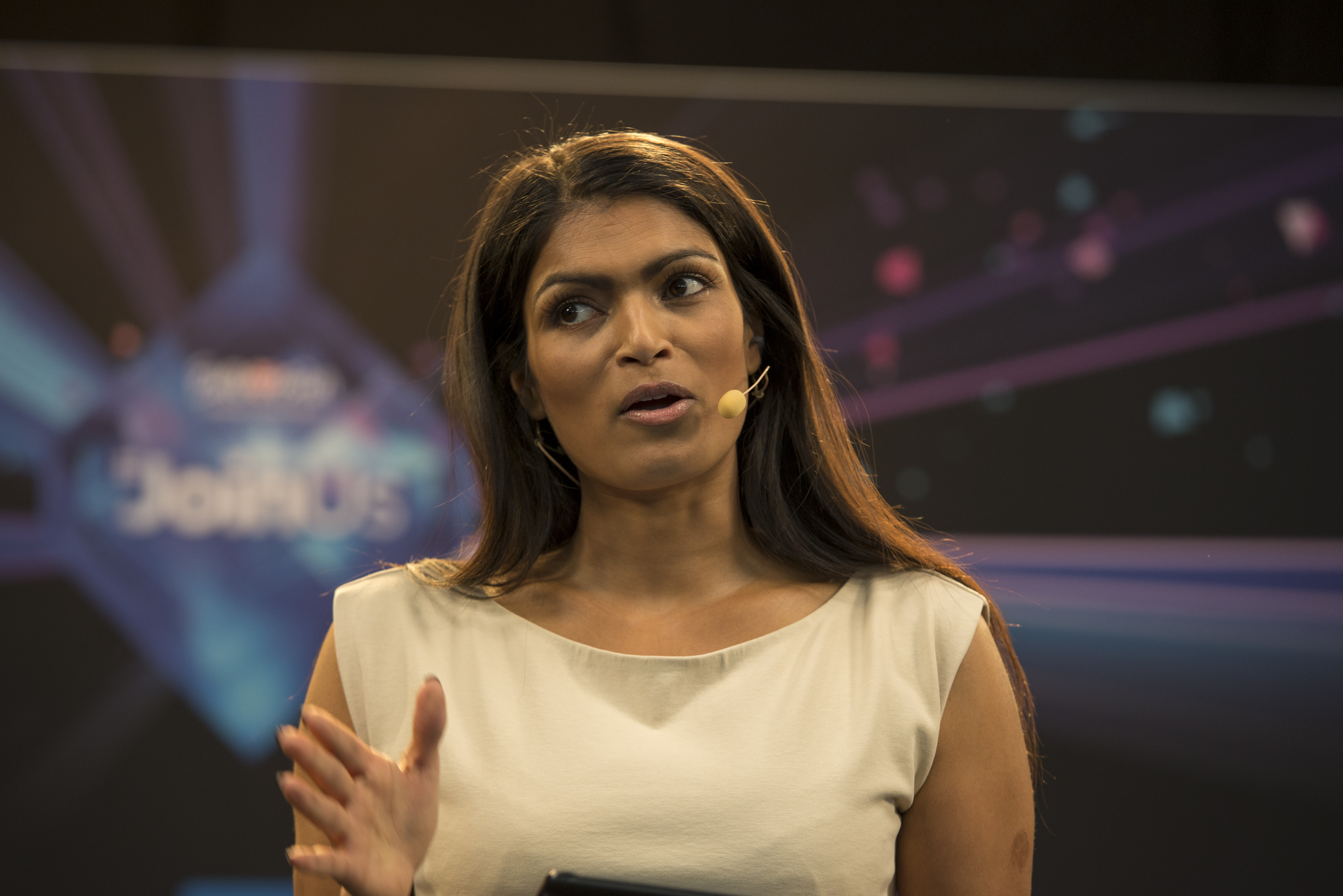 Ulla Essendrop hosting a Meet & Greet in the press centre for the Eurovision Song Contest 2014.